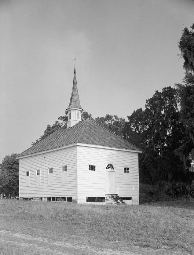 View from the southeast of African-American Baptist Church, Silver Hill Plantation, Friendfield Estate, Georgetown vicinity, Georgetown County, South Carolina. Historic American Buildings Survey, Library of Congress, Washington, D. C.